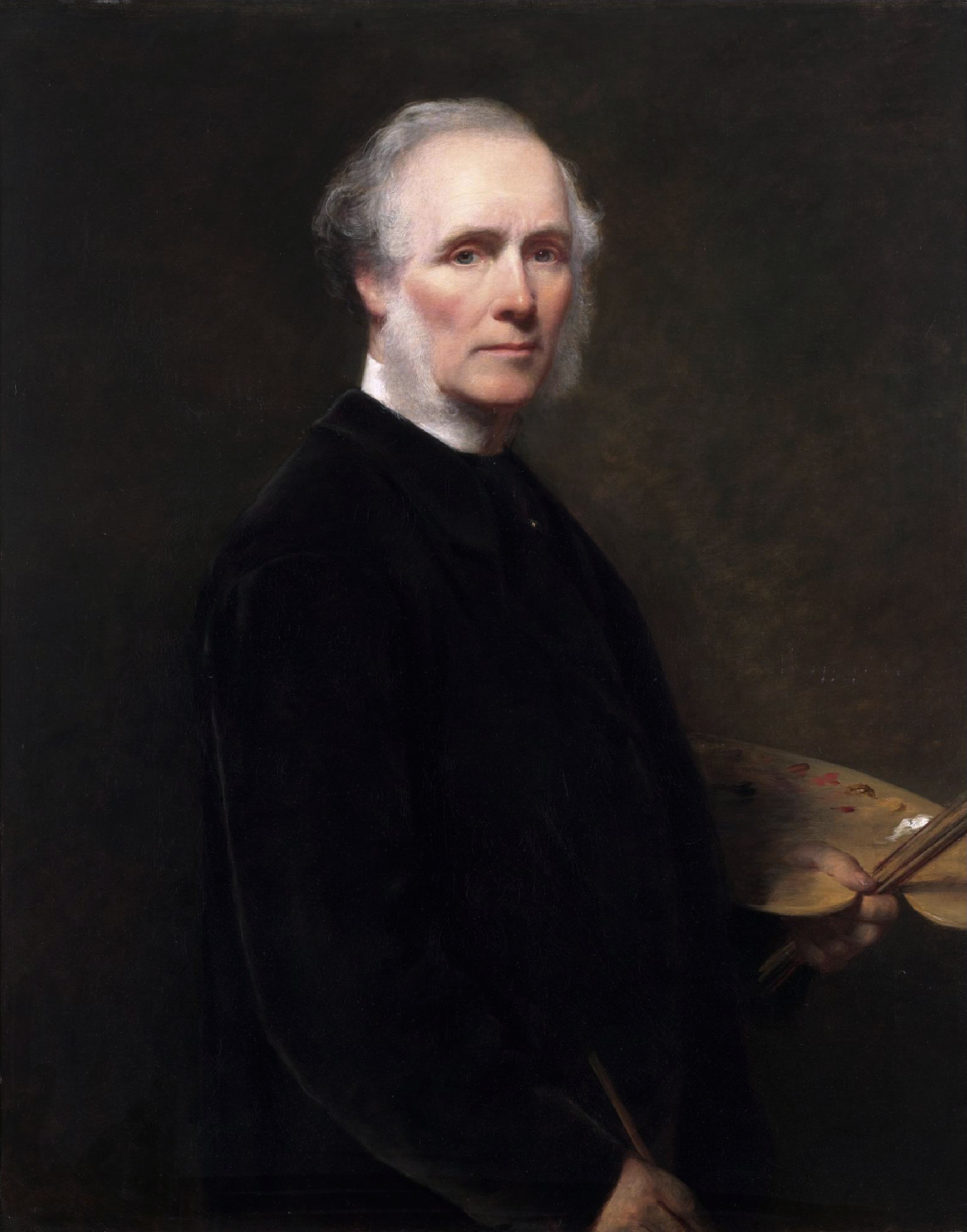 William Powell Frith oil on canvas 102 x 80 cm inscribed on verso: I gave this picture / to wife Mary Frith / Aug 1884 / W.P. Frith